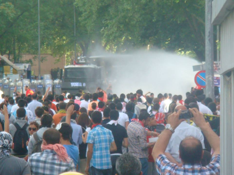 The police attack people from Ankara who supports 2013 protests in Turkey.